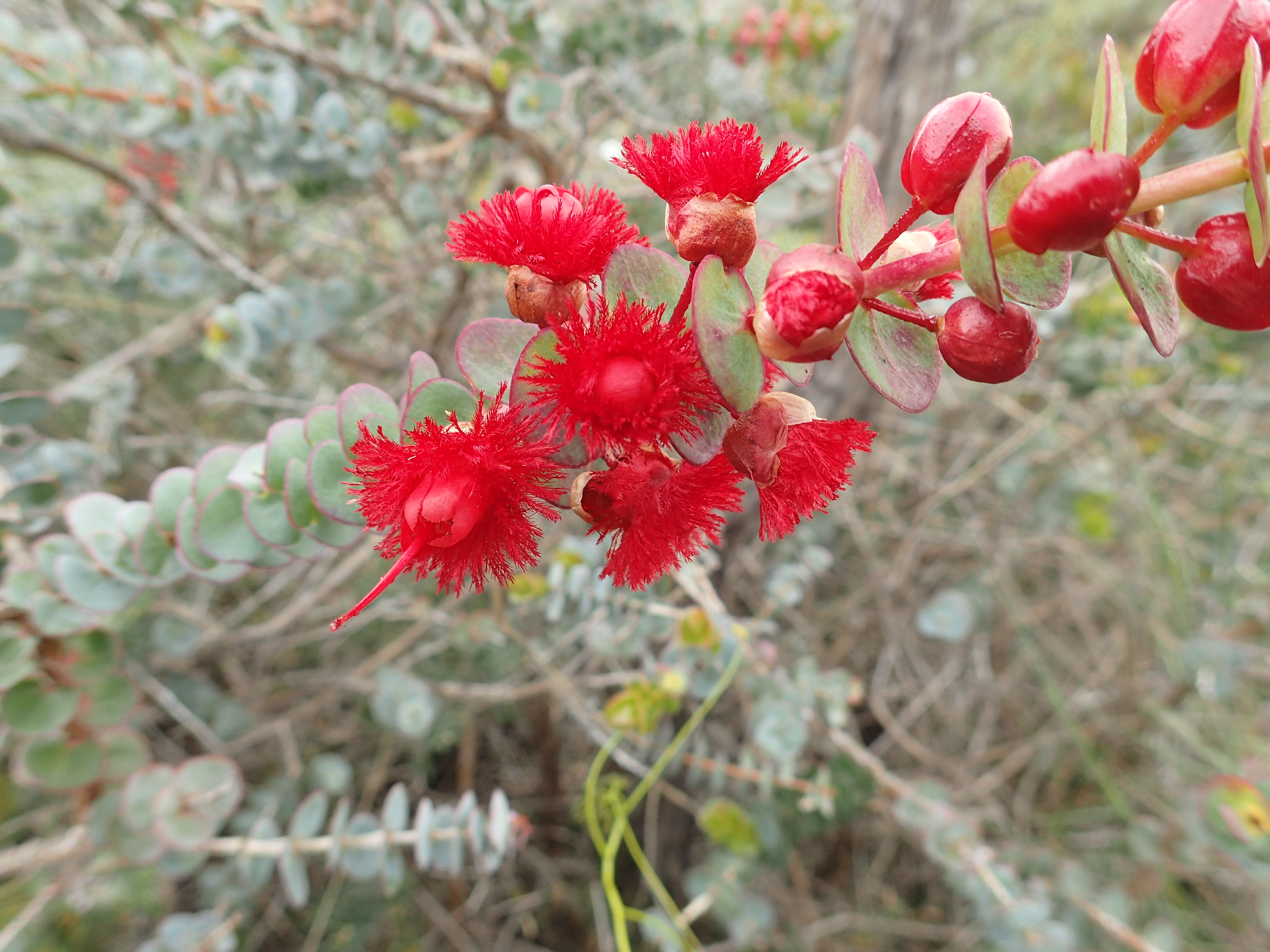 Verticordia grandis growing about 600m along Watheroo Road near Badgingarra